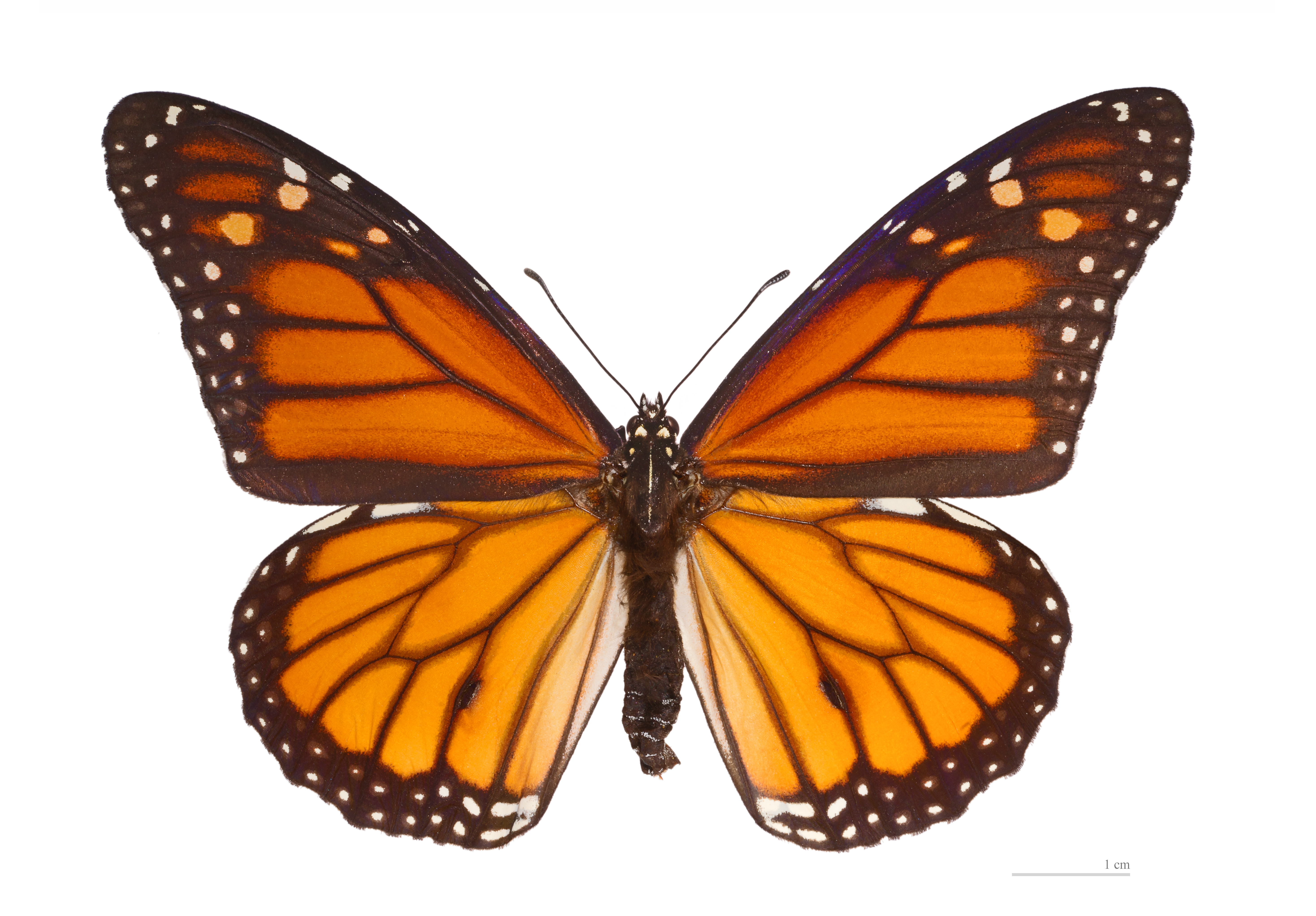 ♂ - Dorsal side Locality: Lac Valmont, Quebec, Canada.